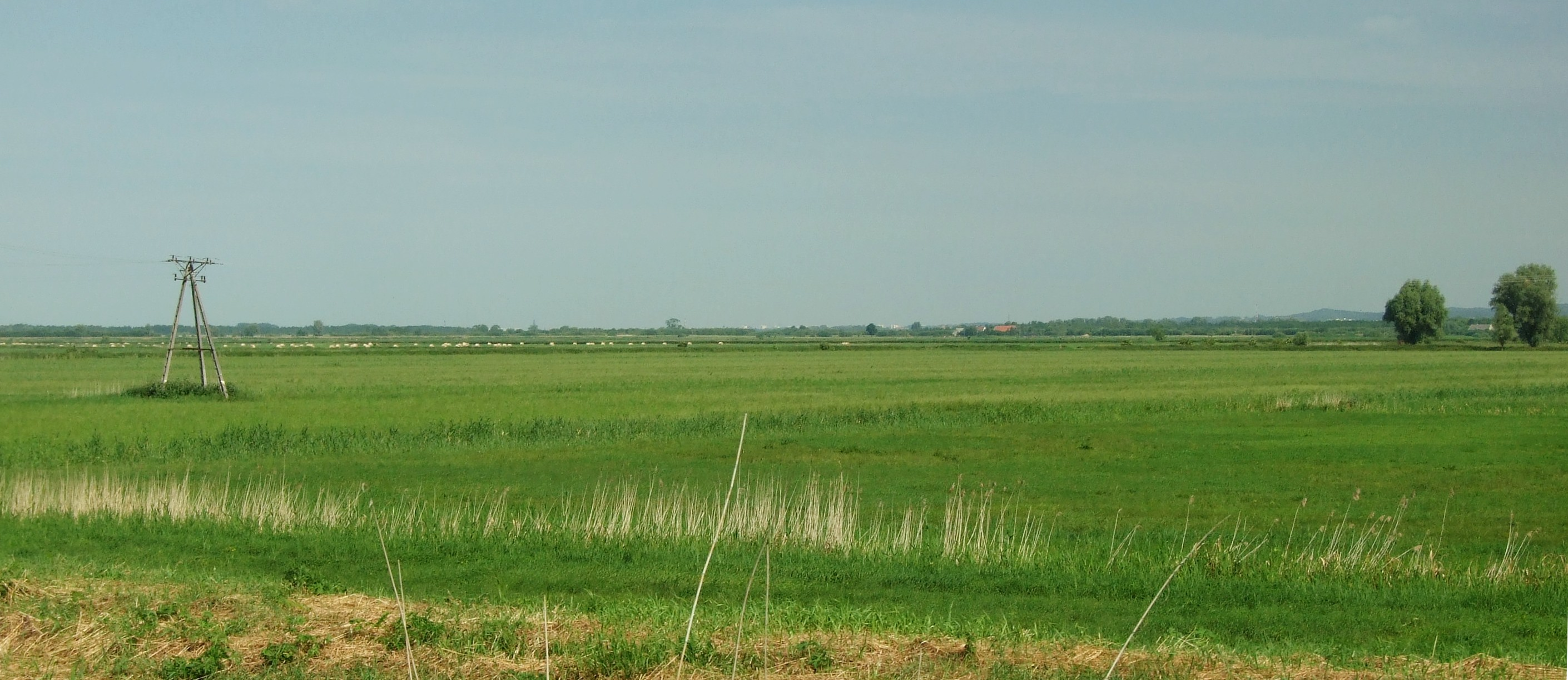 Polish landscape south from Elbląg, Poland and east of Druźno lake. Warmia-Masuria, Poland